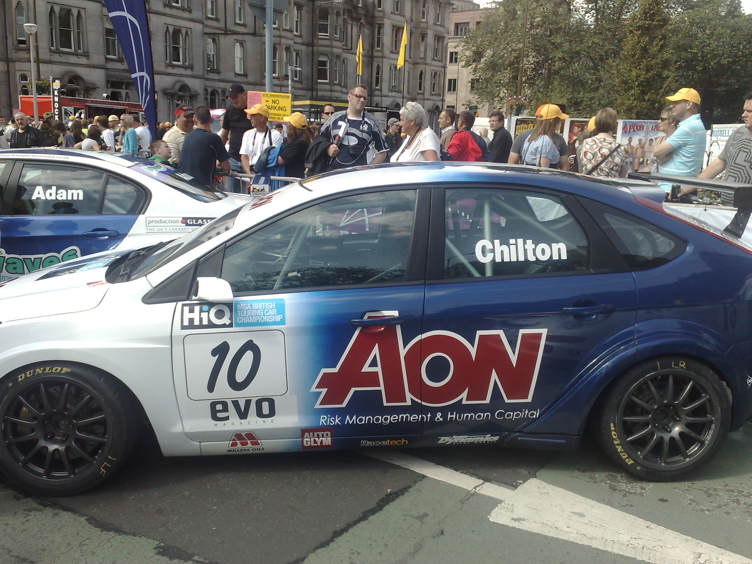 10 Team AON Ford Focus of Tom Chilton at the 2009 Dunlop British Touring Car Festival in Edinburgh.